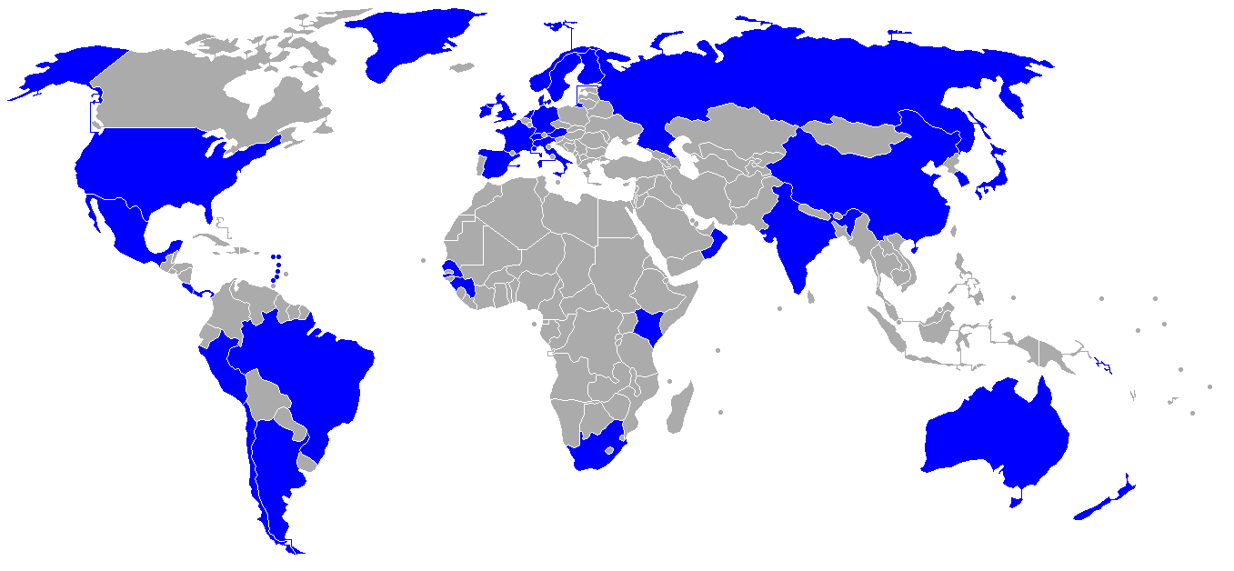 World map showing the signatories of the International Convention for the Regulation of Whaling.